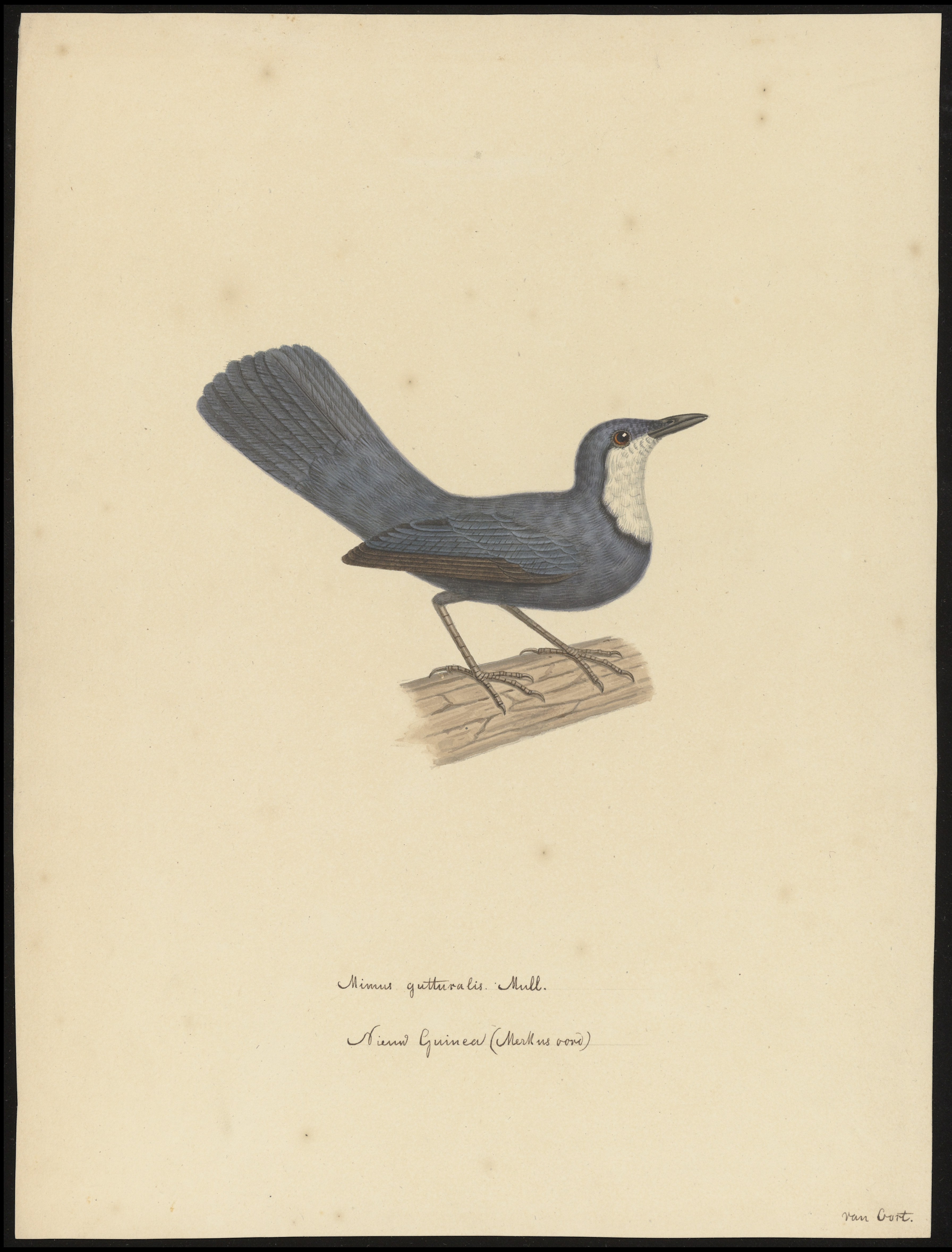 Drawing of a bird